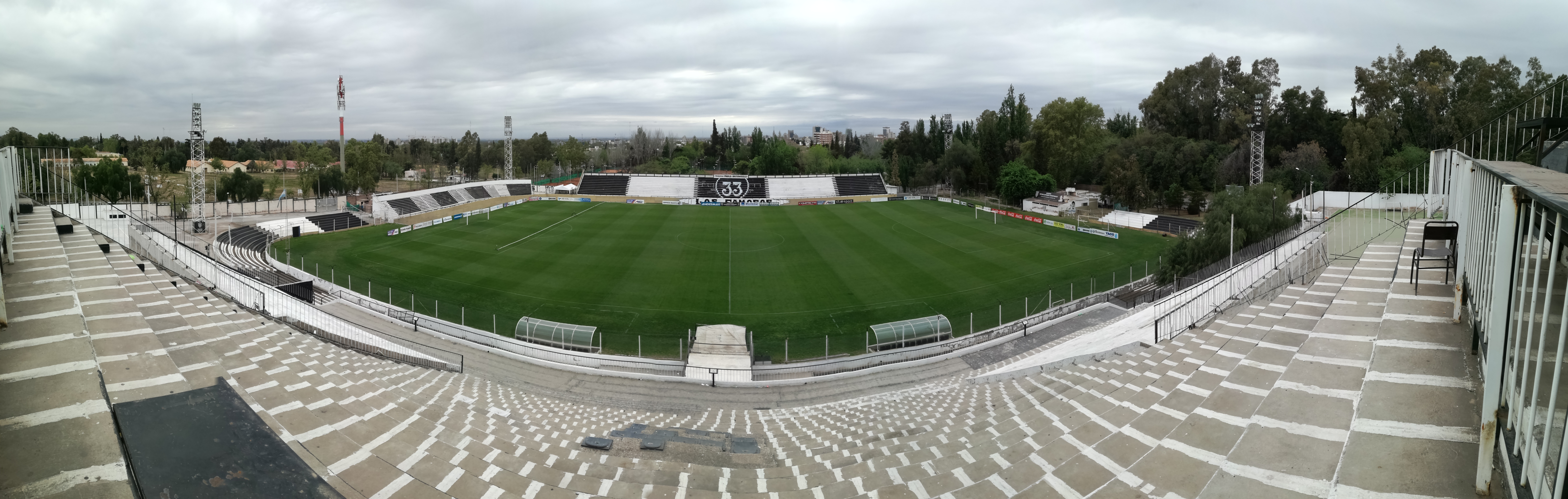 Panoramic view of the stadium from the grandstand west.